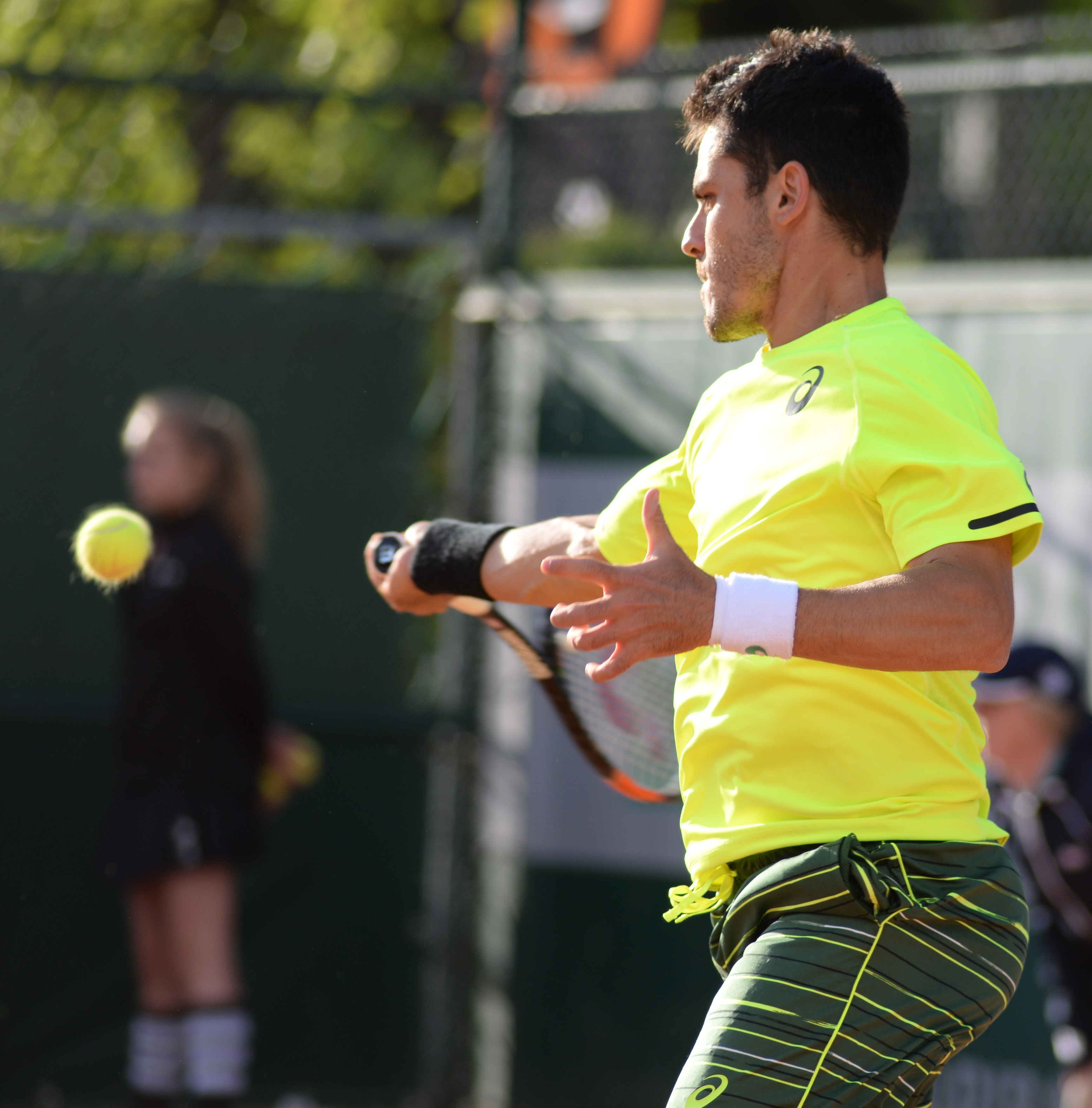 Thomas Fabbiano